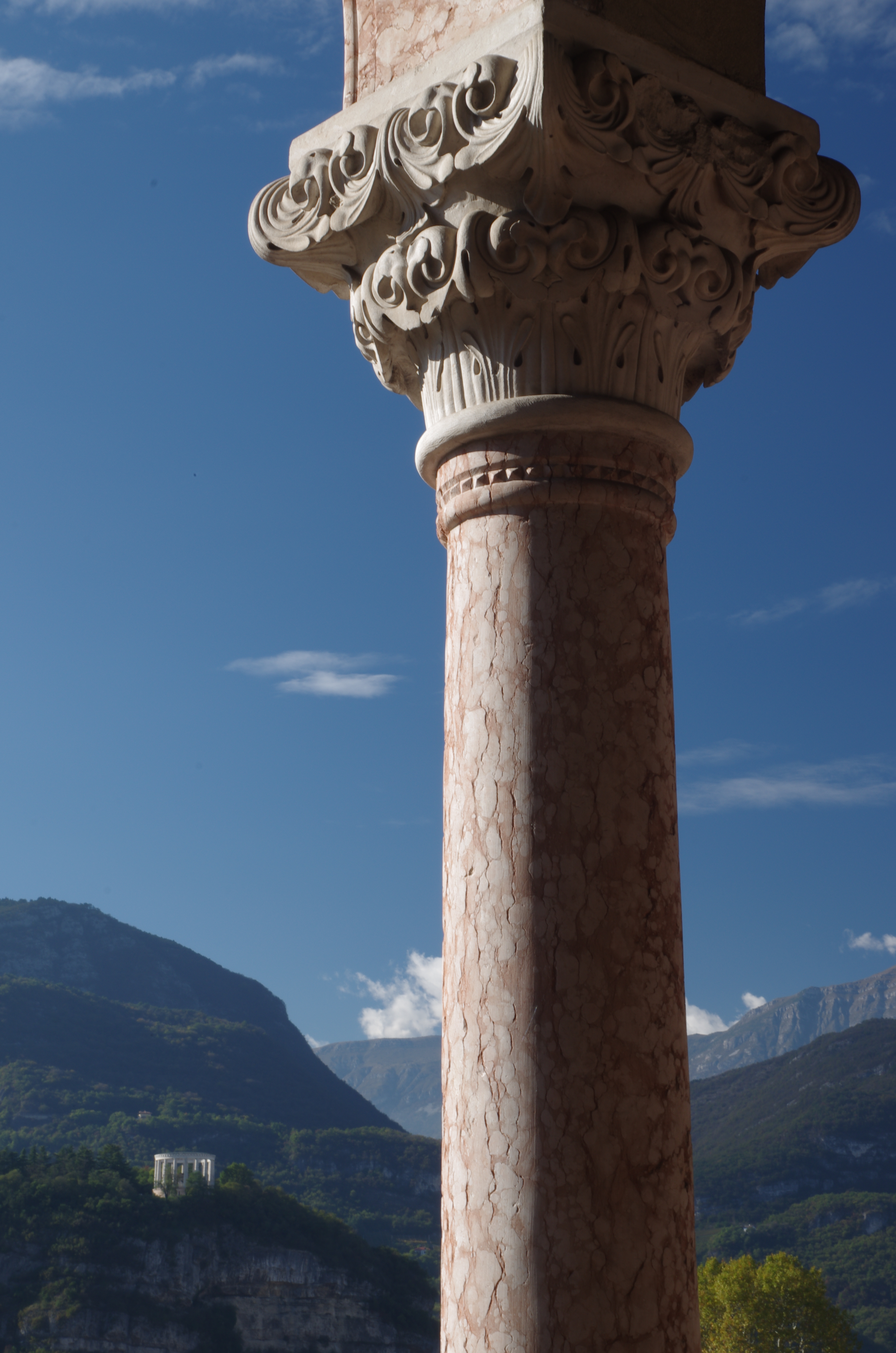 10 2014 Trento-Castello Buonconsiglio- Corinthian order Corinthian capitals -Panorama loggia Venetian Gothic International - Hill Castion, Hill Trento, Mausoleum Cesare Battisti - ITALY - Pentax K-5 II - Tamron AF 17-50mm F2.8 - photo by Paolo Villa -8908